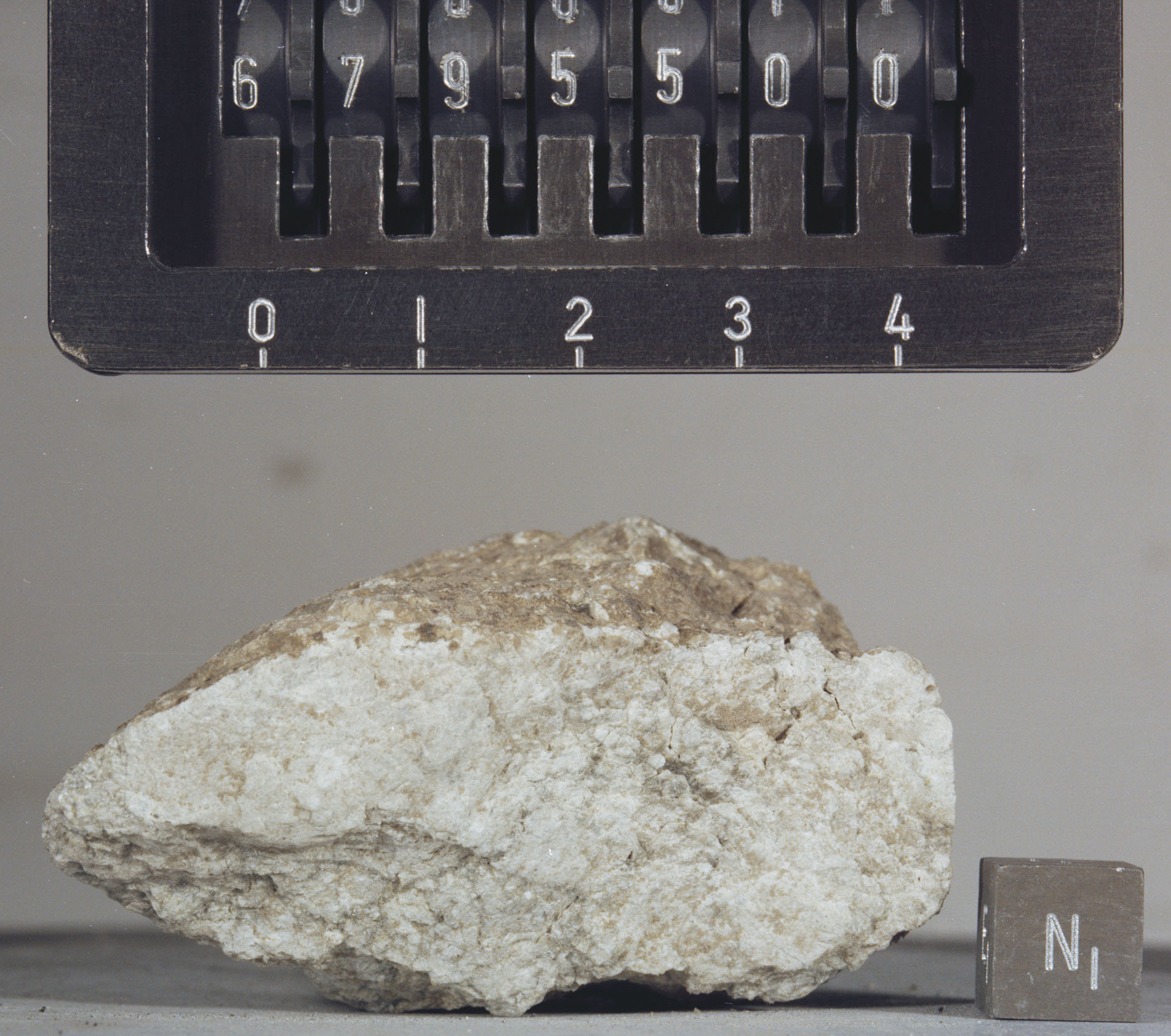 Noritic anorthosite, Apollo 16 lunar sample 67955, collected at North Ray on the moon.